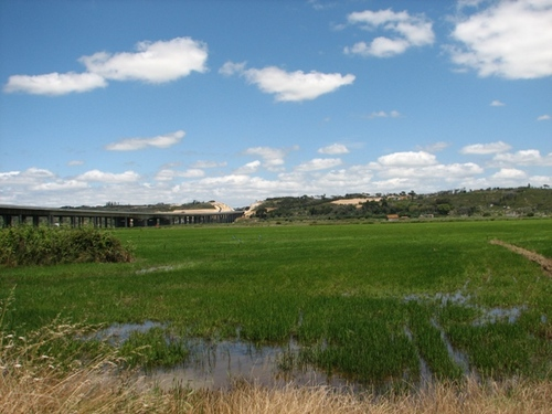 Arrozais